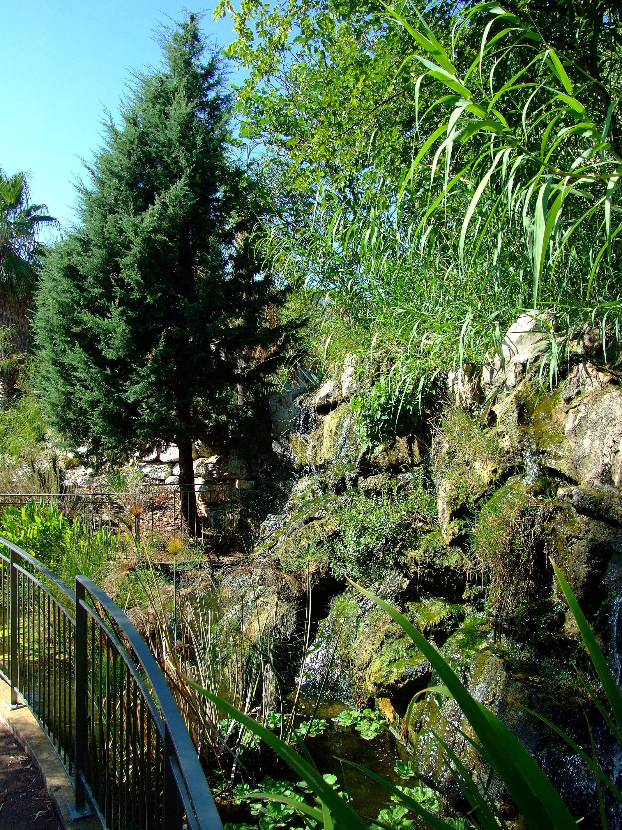 View of a part of botanic garden of Nice, France.